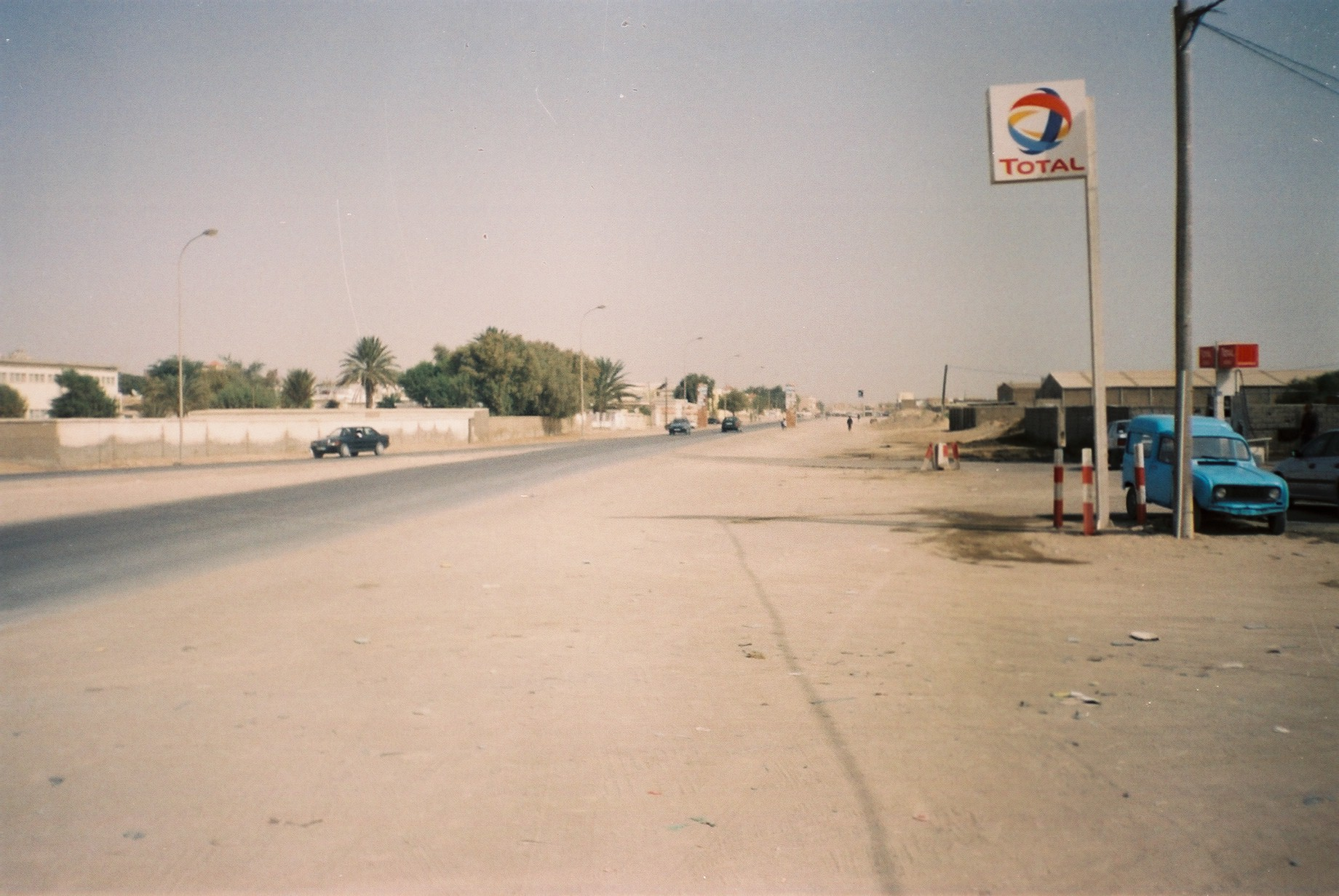 A street in Nouadhibou, Mauritania